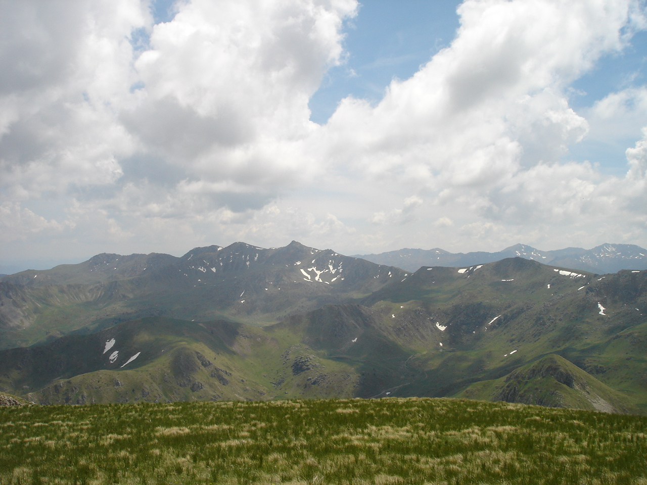 Jablanica mountain, Macedonia